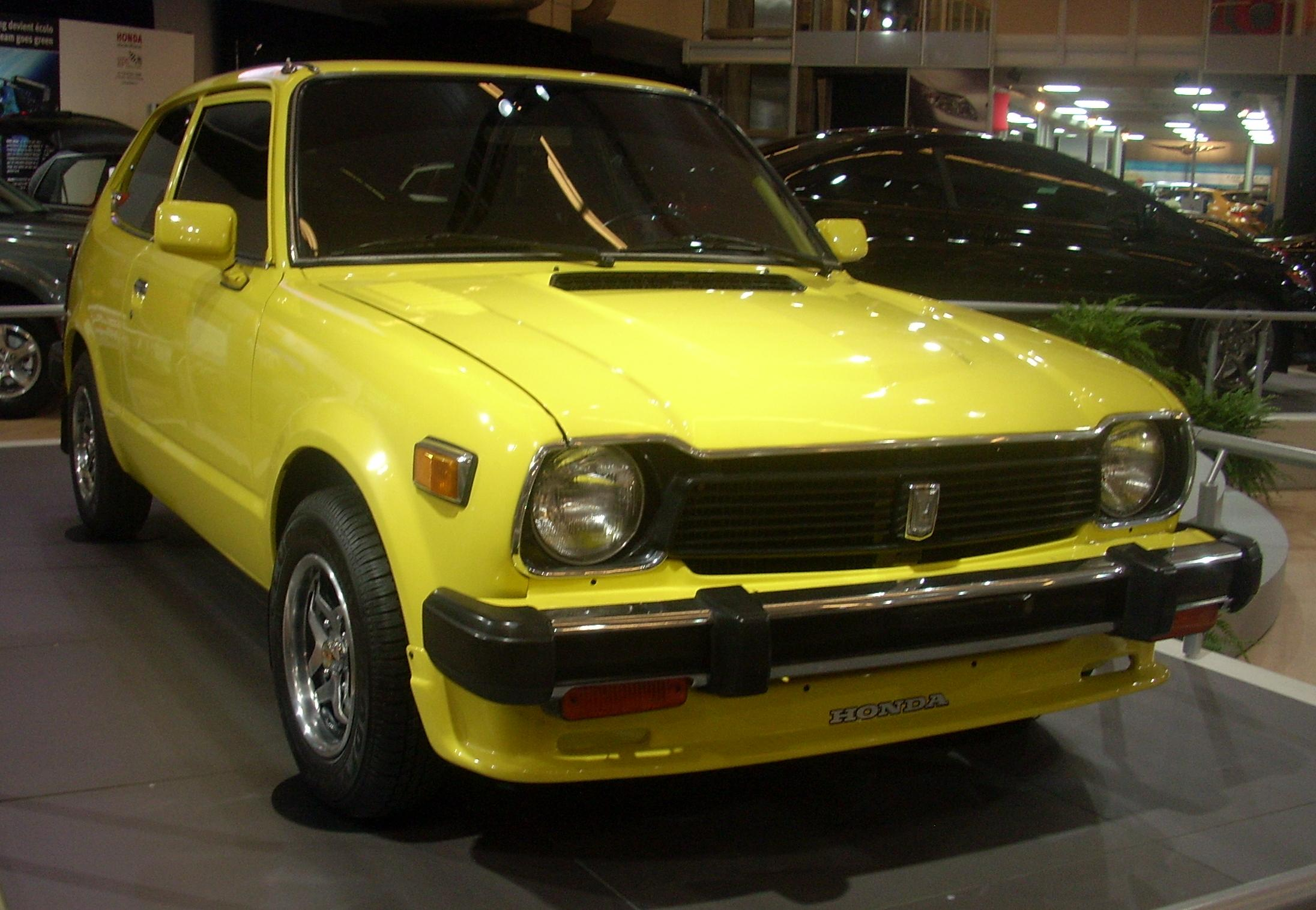 1973-1975 Honda Civic photographed at the Montreal Auto Show.